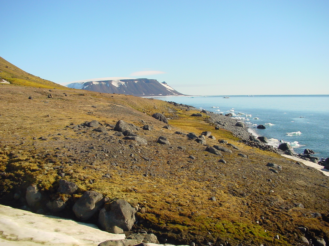 Northbrook Island (Franz Joseph Land)